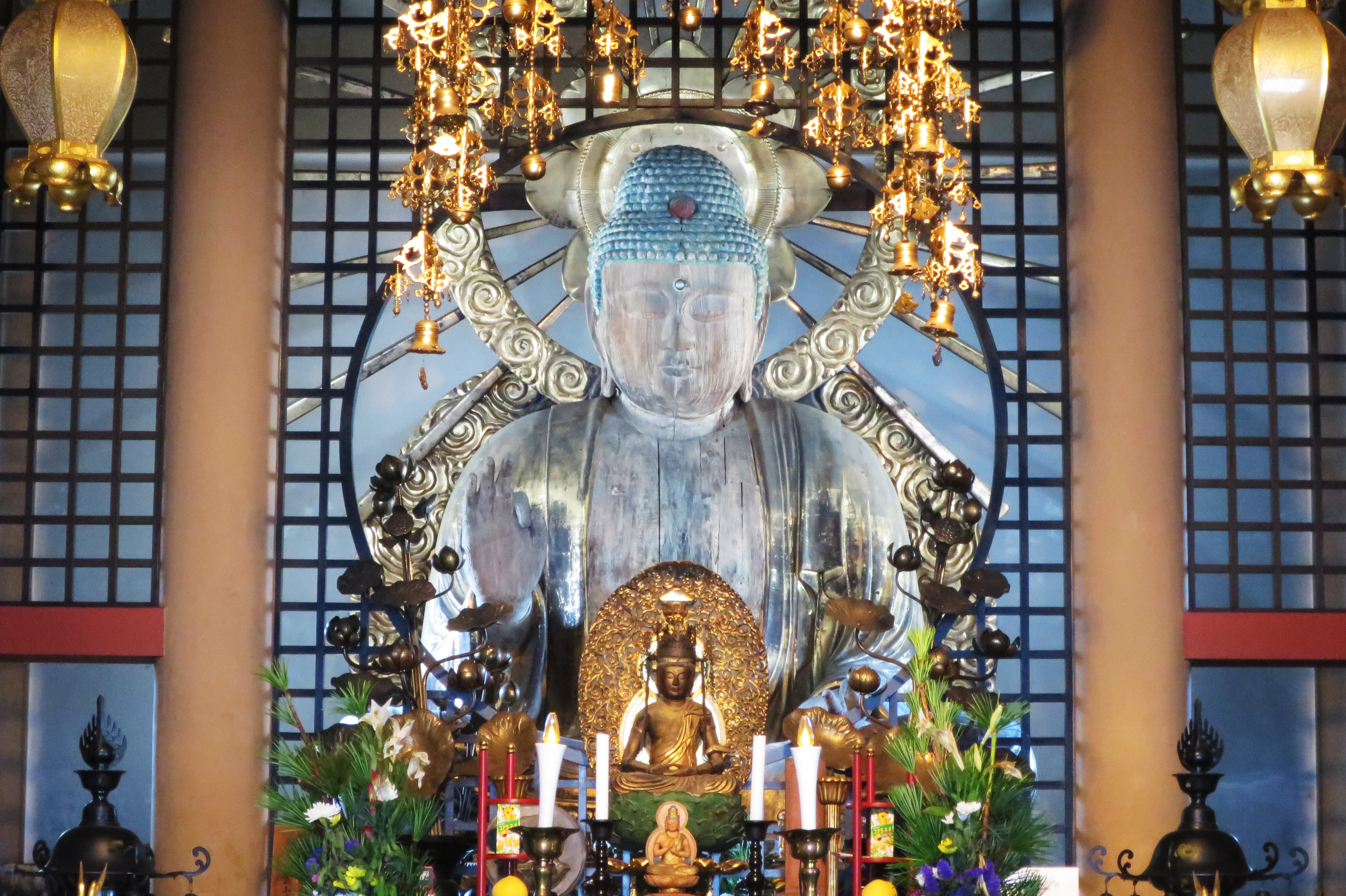 Kosugi Daibutsu (statue of Amida Nyorai), Renno-ji